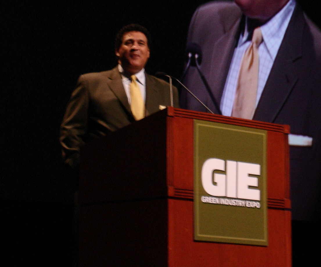 Greg Gumbel in 2005